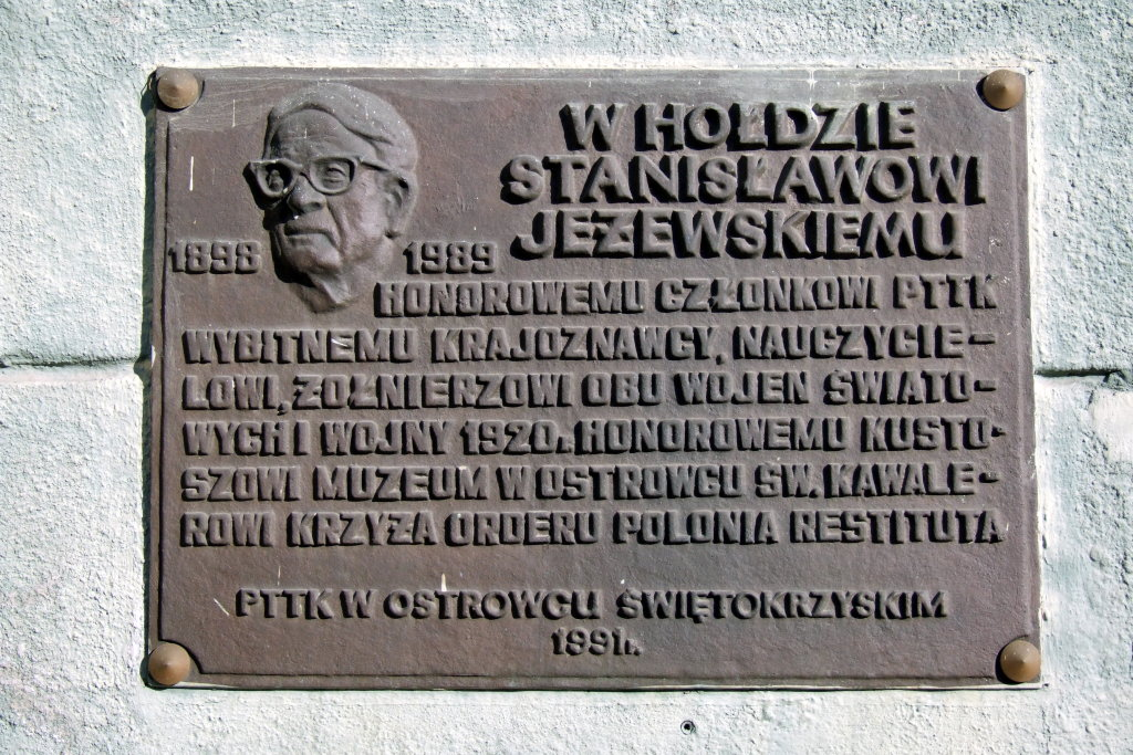 Commemorative plaque of Stanisław Jeżewski in Ostrowiec Swietokrzyski, Poland